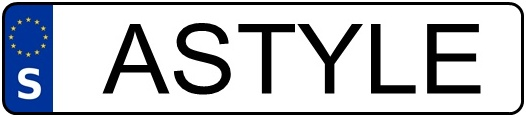 Personalized license plate from Sweden